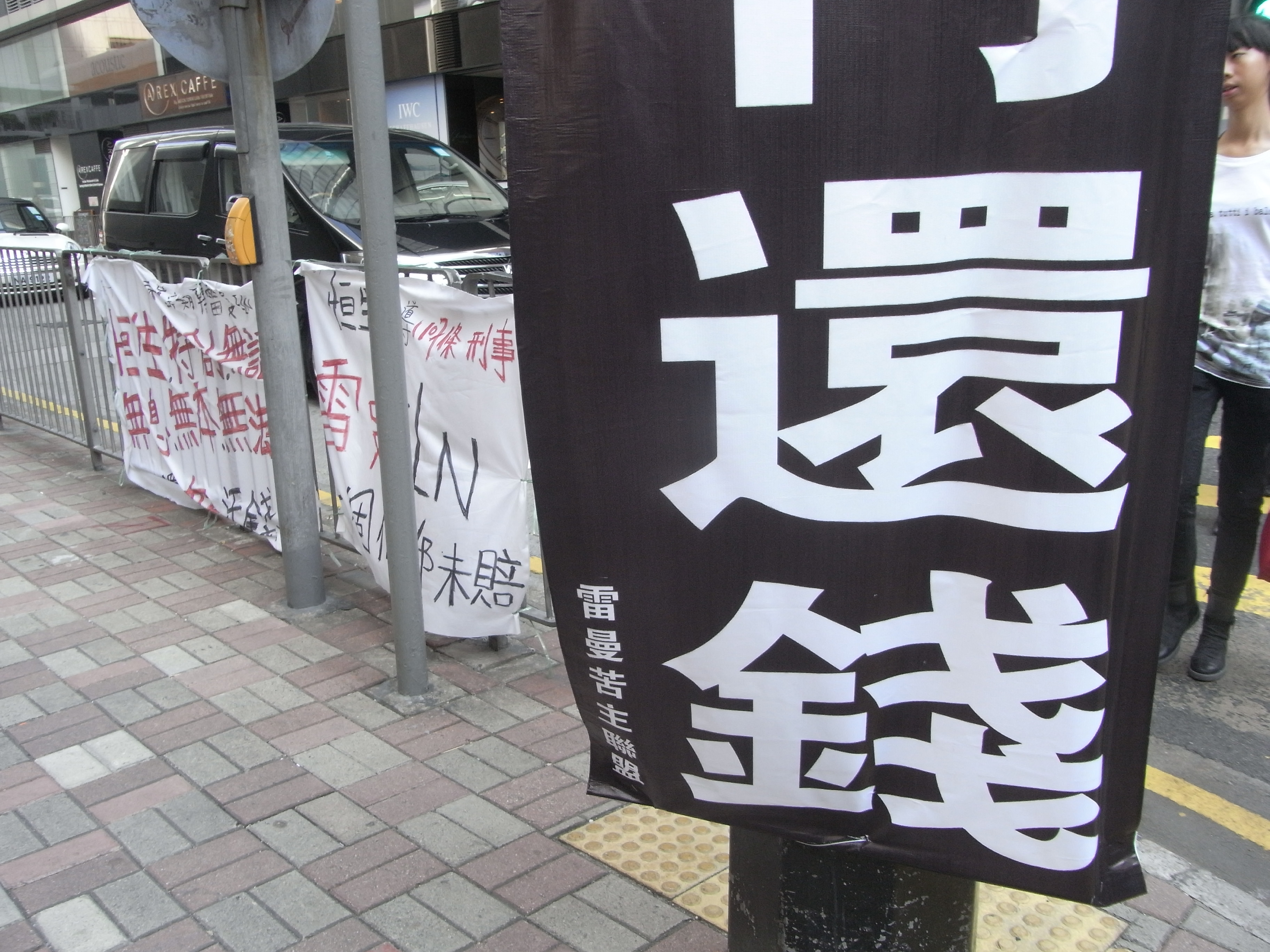 Banners for some customers of Lehman Brothers products